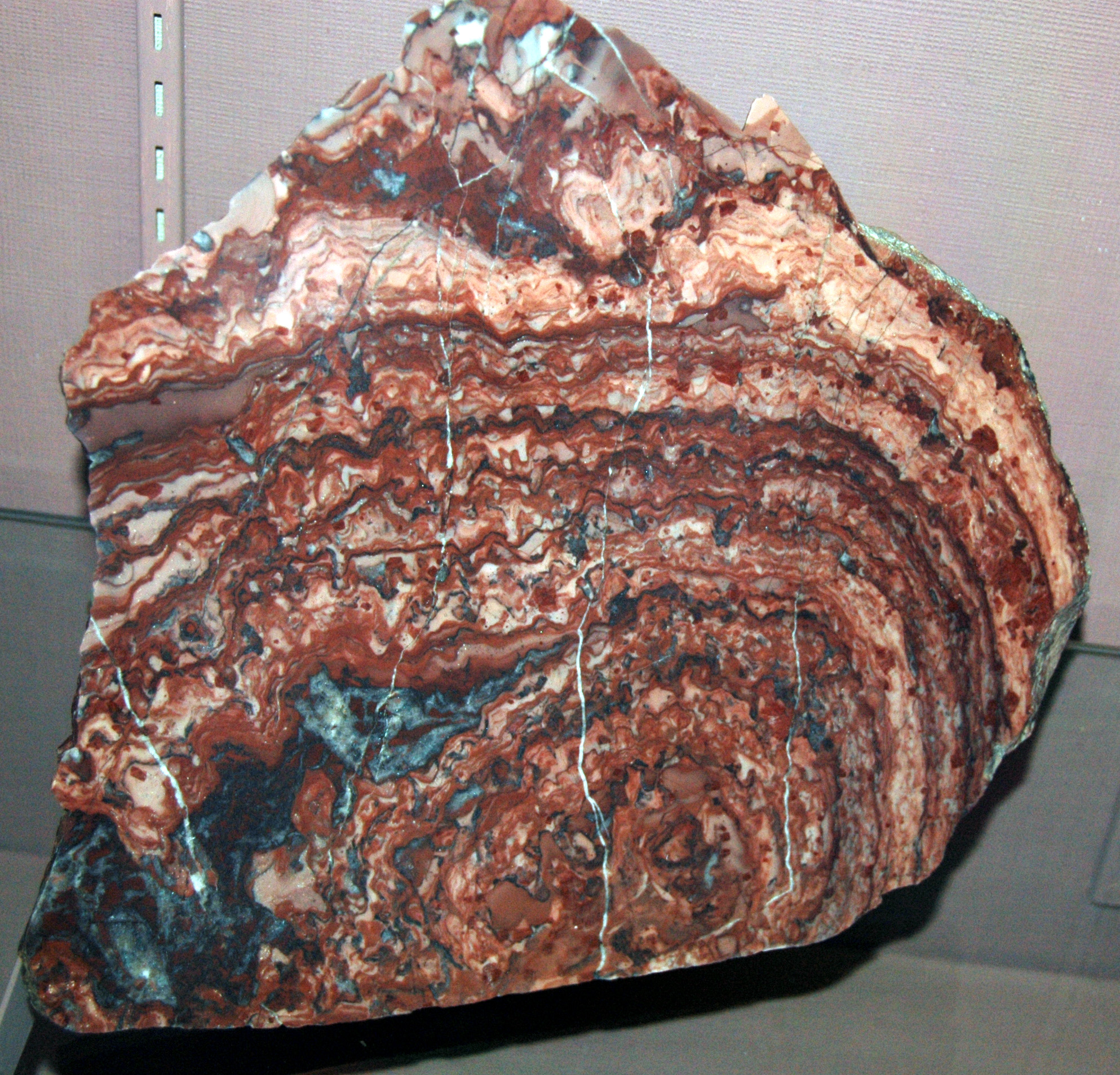 Stromatolitic metadolostone - nice stromatolite from the Kona Dolomite (Precambrian) of northern Michigan, USA. Stratigraphy: Kona Dolomite, Chocolay Group, lower Marquette Range Supergroup, Paleoproterozoic, 2.2 to 2.3 Ga. Locality: Lindberg Quarry, Marquette, northern Upper Peninsula of Michigan, USA. Stromatolites are large, layered structures built up by mats of cyanobacteria. Stromatolites vary in appearance, ranging from slightly wrinkled horizontal laminations in sedimentary rocks to low mounds to prominent mounds to columnar structures and other forms. Stromatolites are most common in the Proterozoic fossil record. They are scarce today, but famous modern examples occur at Shark Bay, Western Australia.